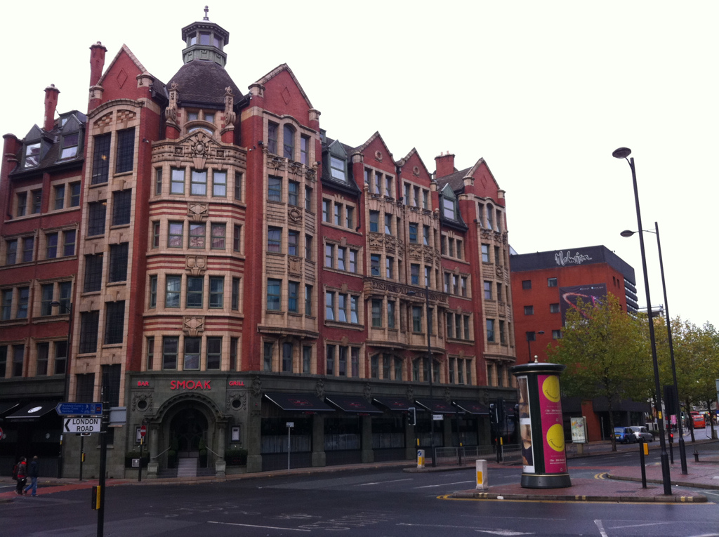 The front elevation of the Malmaison Hotel, Piccadilly, Manchester, England.